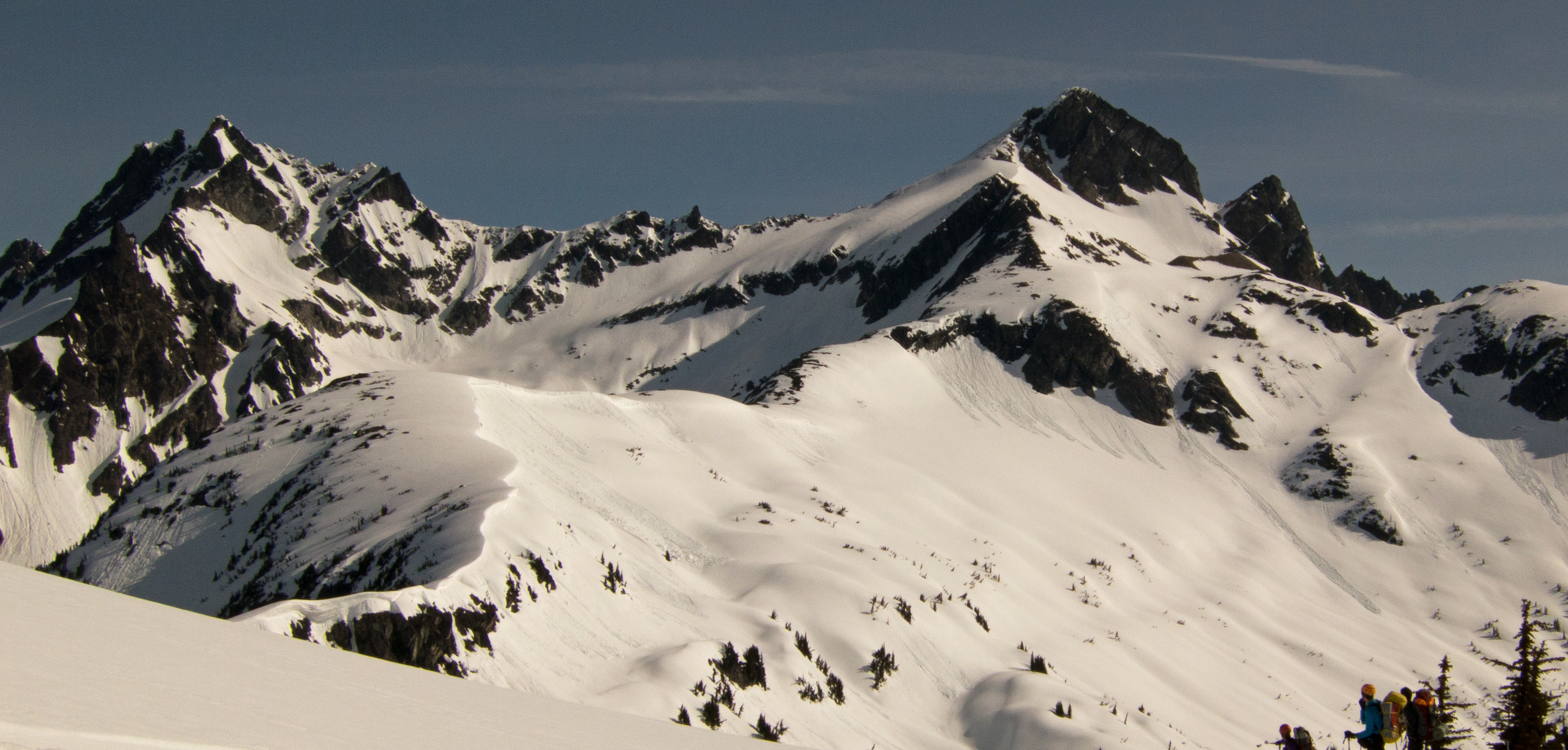 Snowfield, considering the approach. Snowfield Peak from south near Isolation Peak.